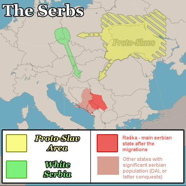 Migration of Serbs in the early 7th century.